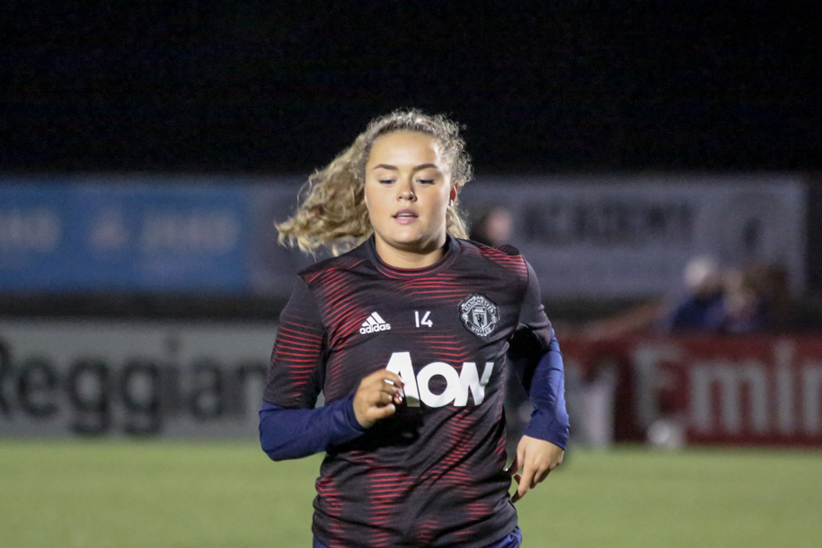 2018–19 FA Continental Tyres League Cup semi-final: Arsenal WFC v Manchester United WFC – Charlie Devlin of Manchester United WFC before the start of the match.